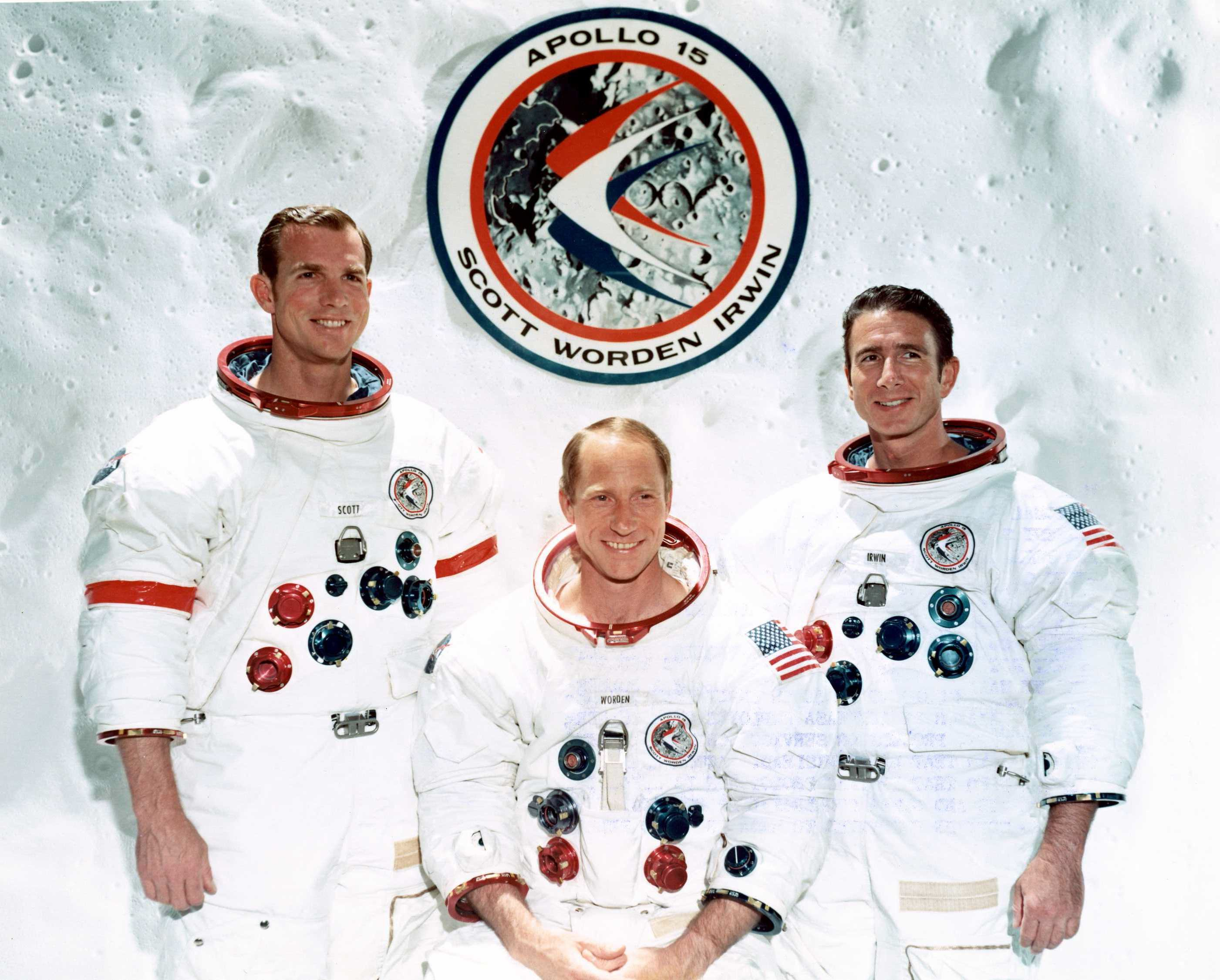 The prime crew of Apollo 15; from left to right: Commander, David R. Scott, Command Module pilot, Alfred M. Worden and Lunar Module pilot, James B. Irwin. The Apollo 15 mission emblem is in the background.